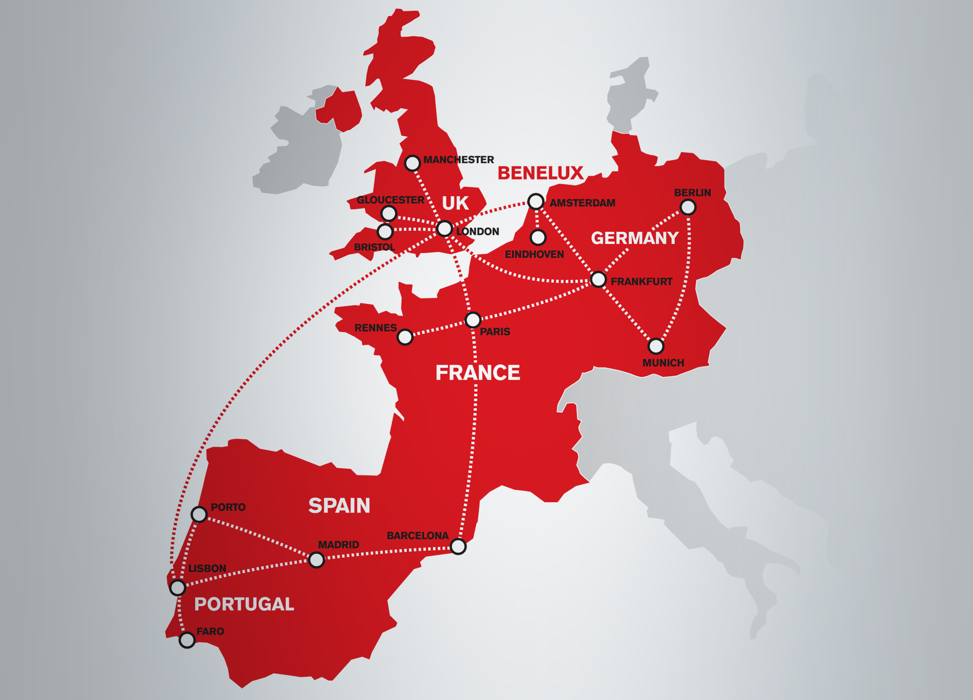 Benoit Neuveglise for Claranet